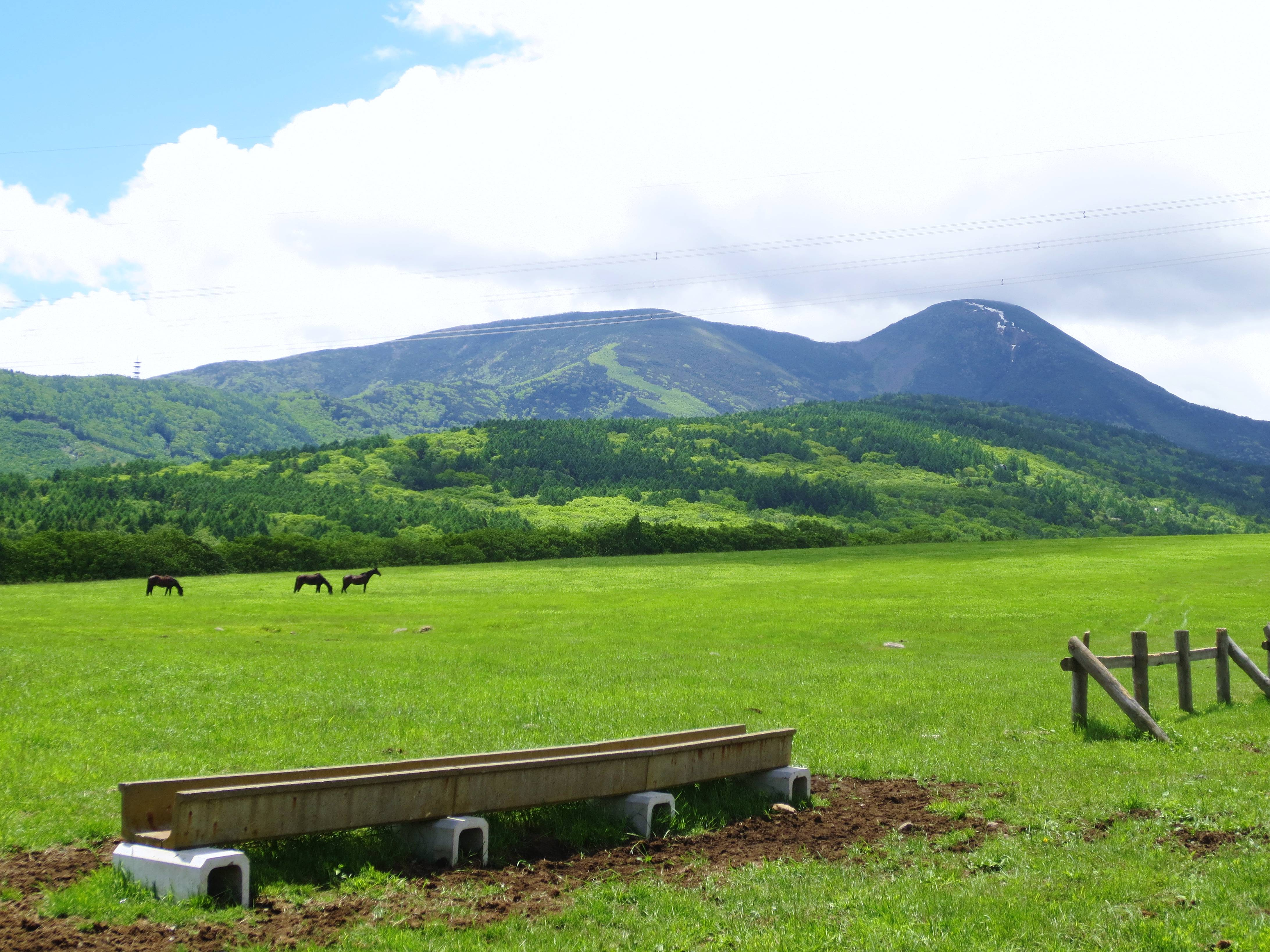 Tateshina No. 2 Ranch.